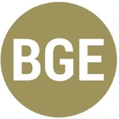 Former emblem of the German party Bündnis Grundeinkommen (BGE), a unconditional basic income party. The actual version shows a white cross on light blue ground.